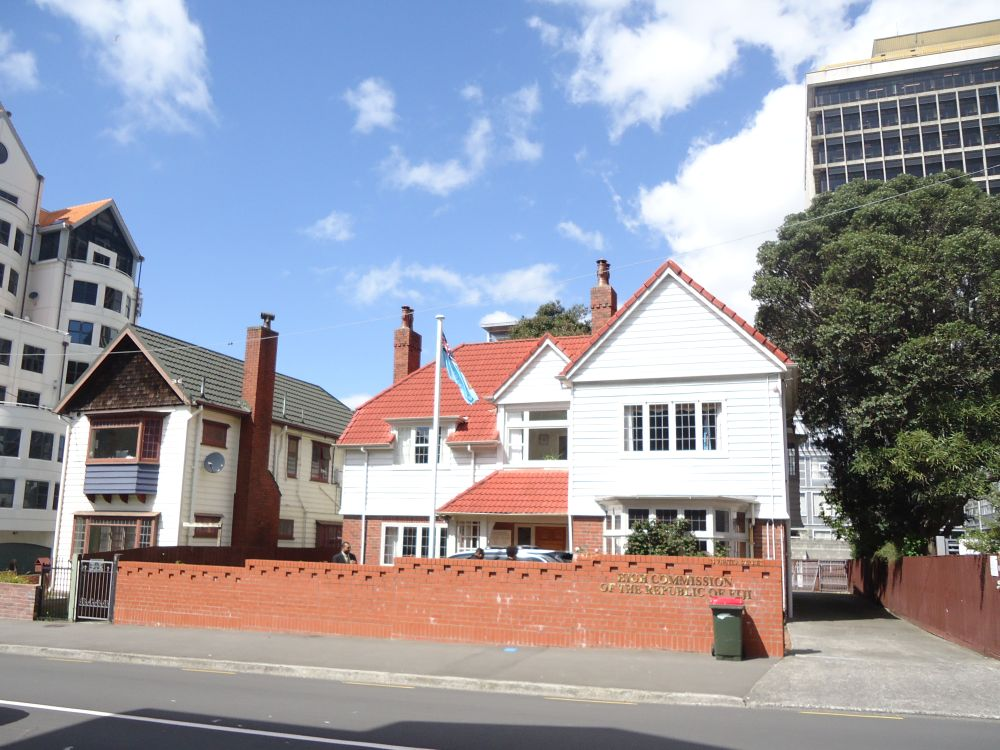 Fijian High Commission in Wellington, New Zealand